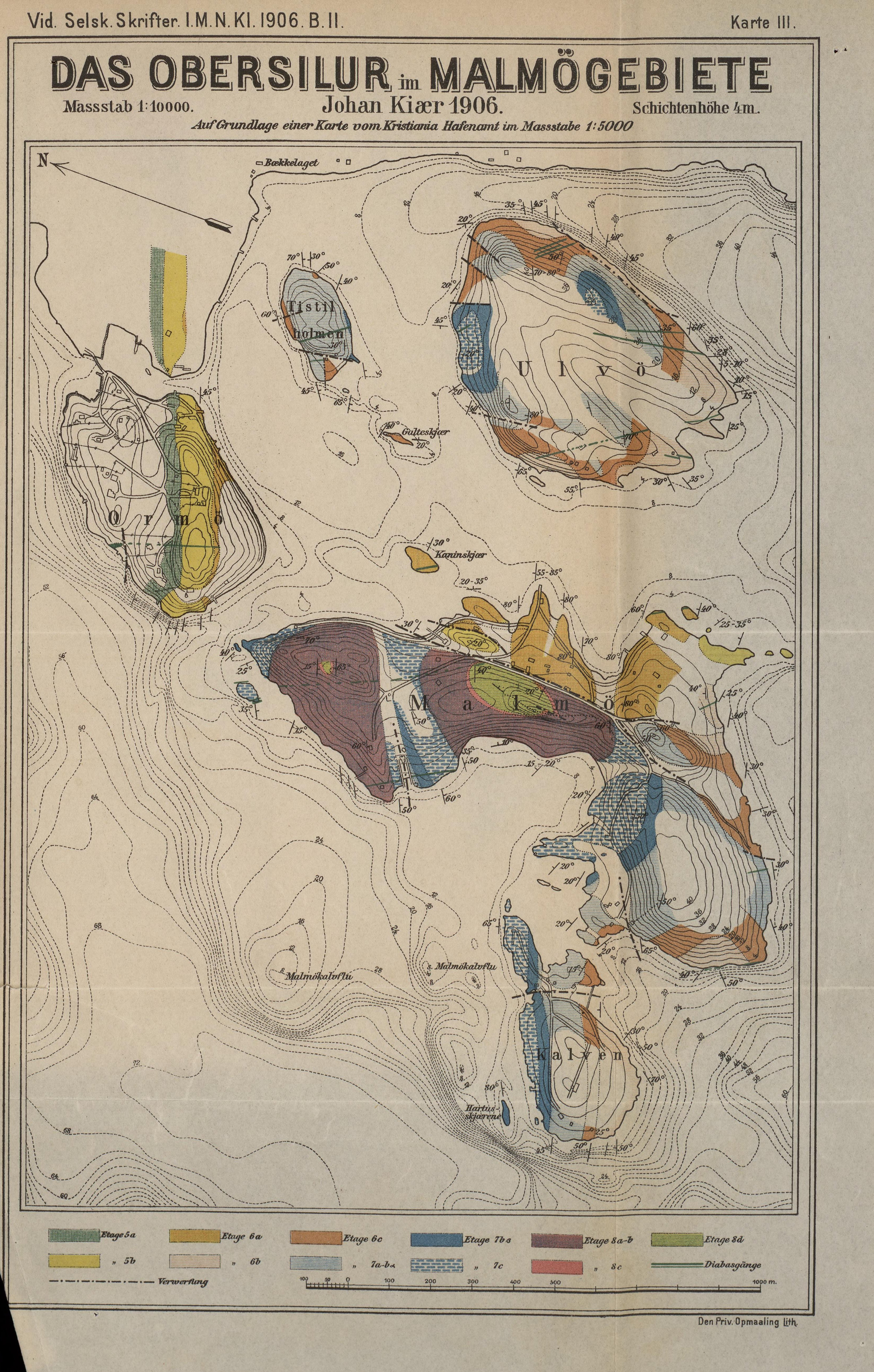 “Upper Silurian” of the Malmøya area (Kiær’s “Upper Silurian” corresponds to the entire Silurian stage including the uppermost Ordovician of the current chronostratigraphy)